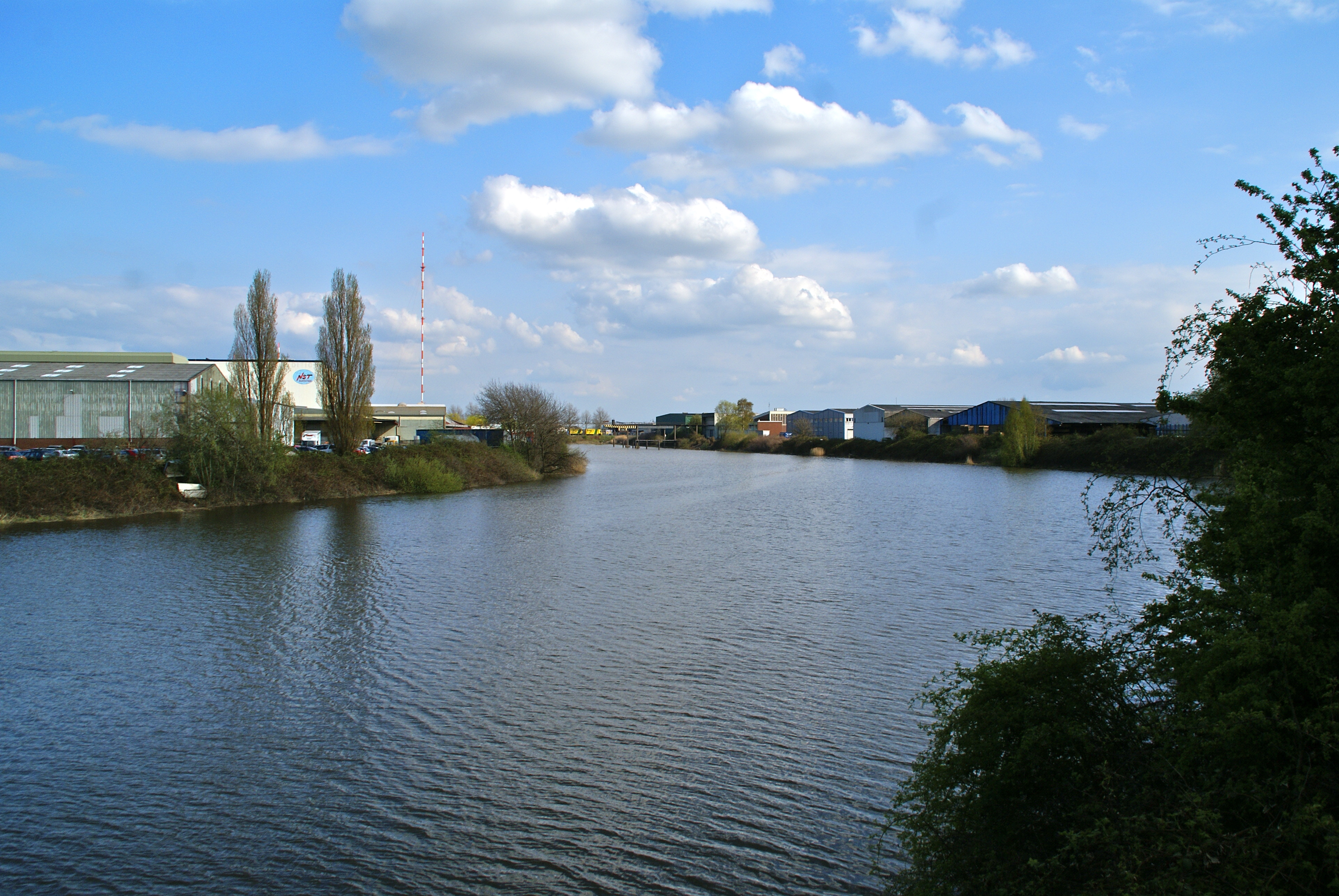 Hamburg (Billbrook), Germany: The Industriekanal from the Pinkert Bridge in easter direction